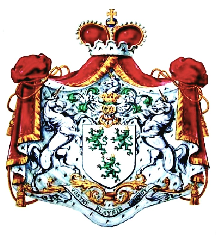 Coat of arms of the House of Lannoy.